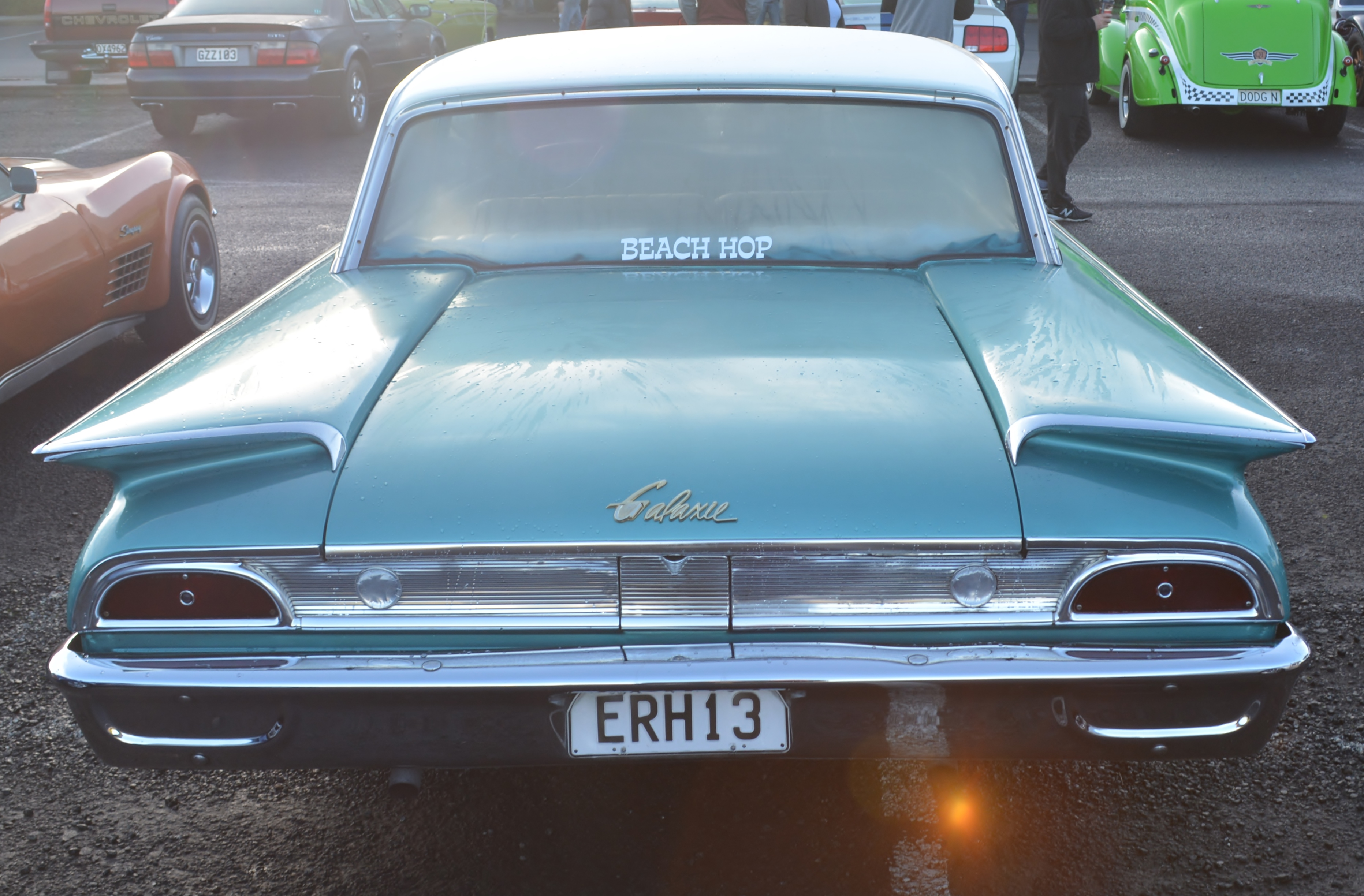 Manakau,South Auckland.New Zealand